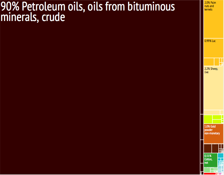 A proportional representation of Sudan's exports.